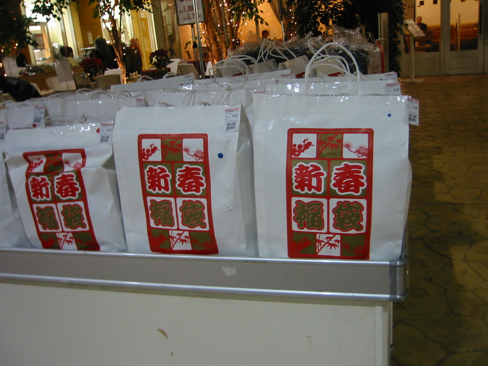 Japanese fukubukuro ("lucky bags") on sale outside the Twin Leaves Hotel in Izumo